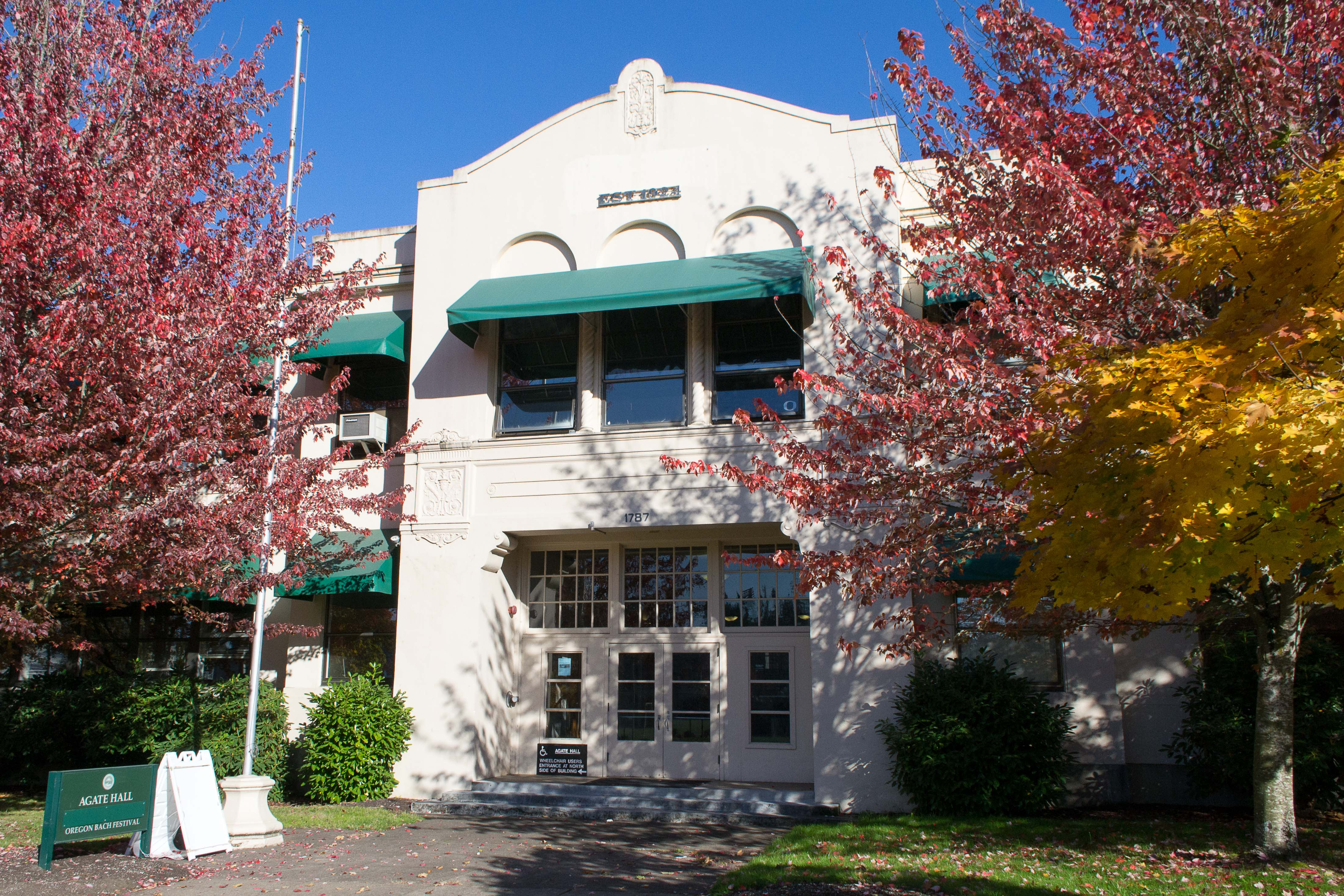 Agate Hall at the University of Oregon